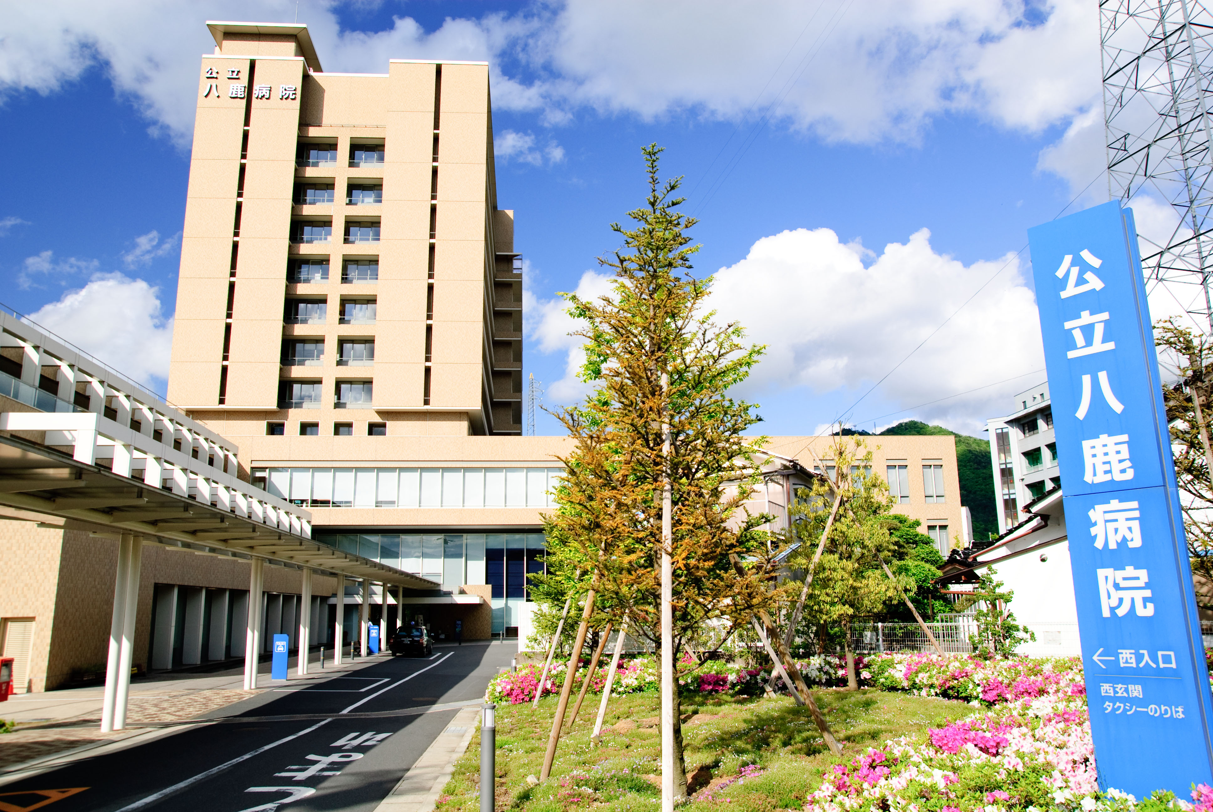 Yoka Hospital in Yoka-cho Yabu ,Hyogo Prefecture,Japan.